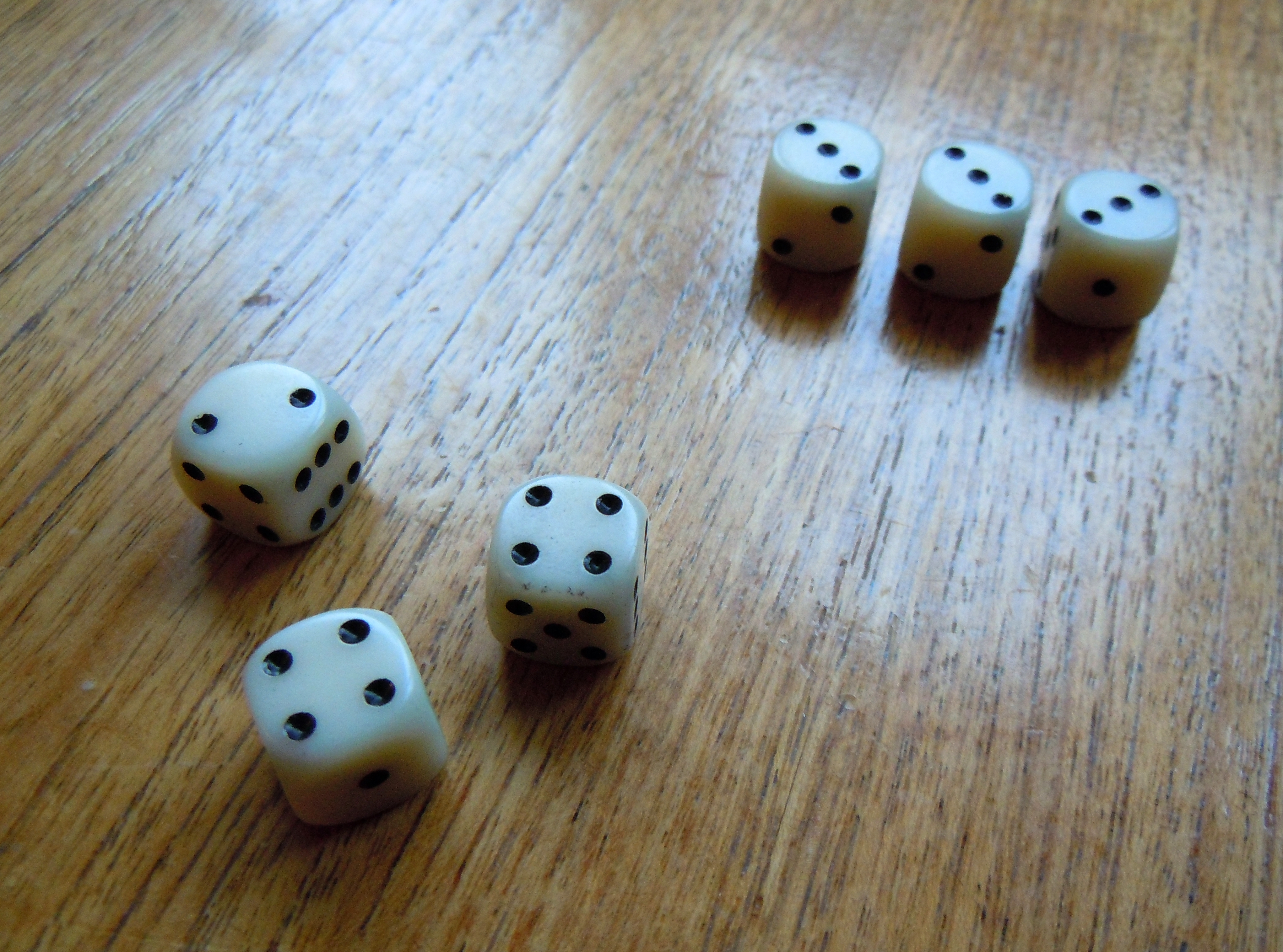 Six dice rolled as in a game of Farkle.